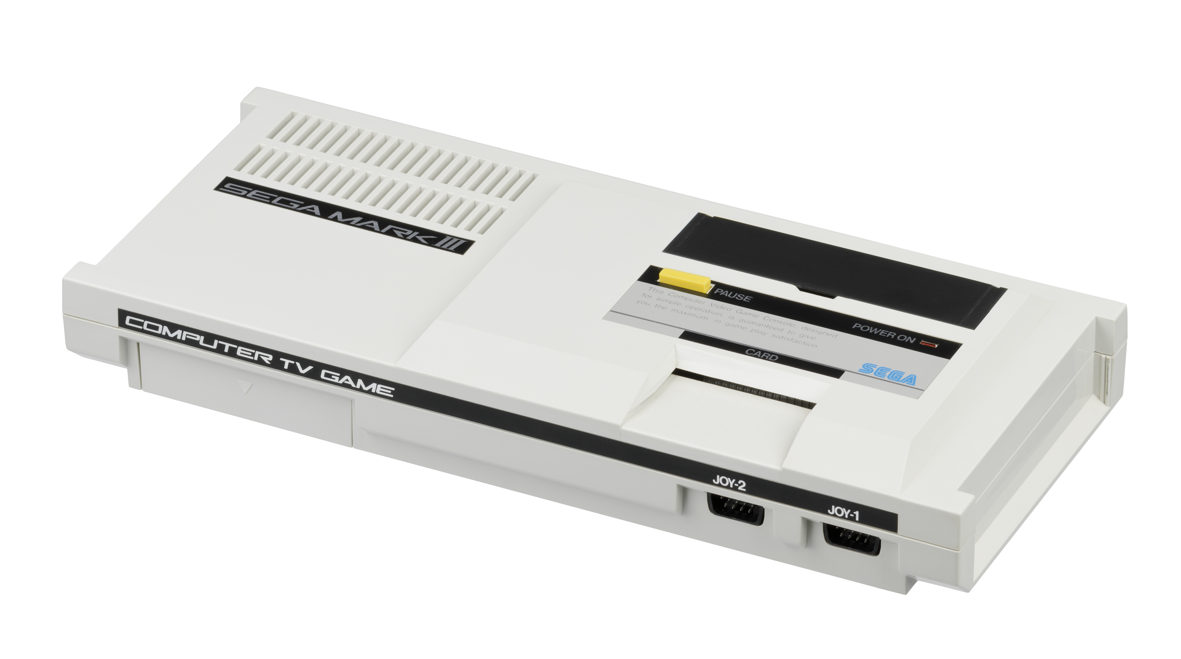 The Sega SG-1000 Mark III, a revision of Sega's first video game console that was released in Japan in 1985. Based off of the Zilog Z80, the console also features more RAM and an updated GPU compared to the Sega SG-1000, making it capable of more advanced graphics. The Mark III revision also added a card and advanced A/V port to the back. The console would later be branded as the Master System when it was released worldwide.